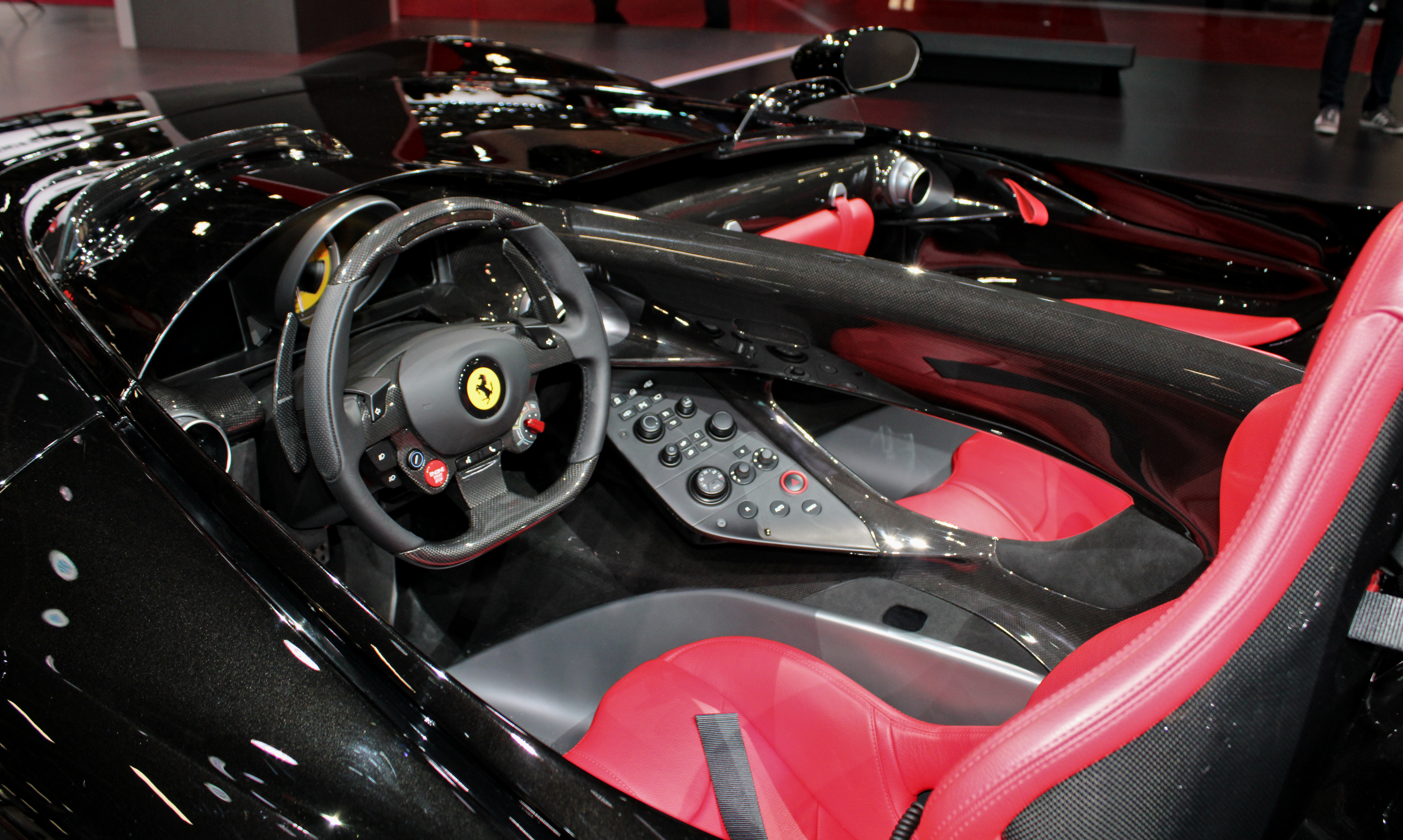 Ferrari Monza SP2 at Paris Motor Show 2018